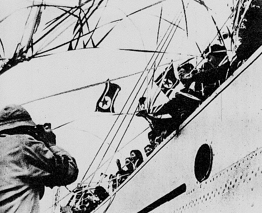 Repatriation of Koreans from Japan